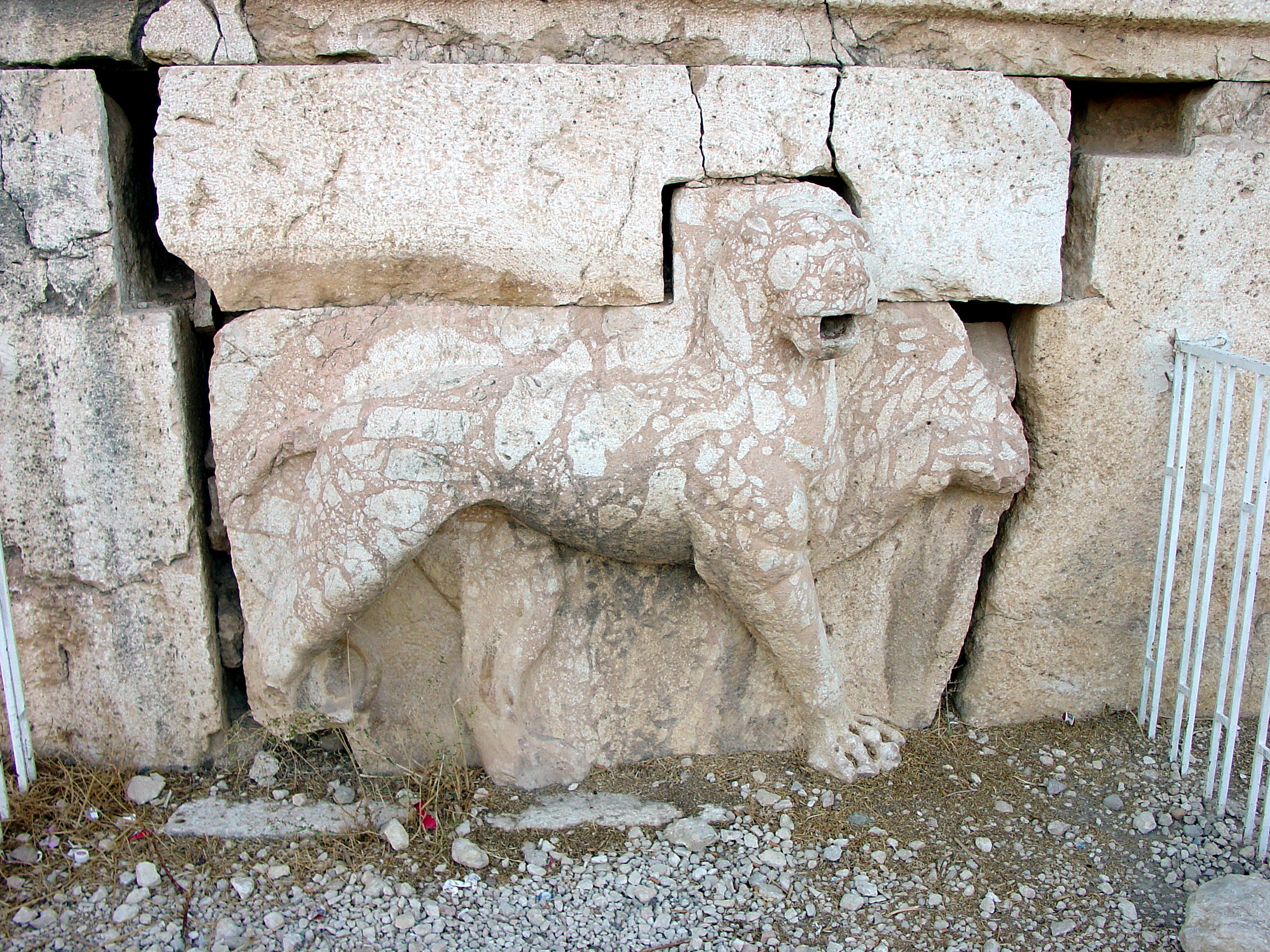 East Wall, Qasr al-Abd, Jordan At the base of each long wall is a fountain, carved in the shape of a leopard with raised paw.